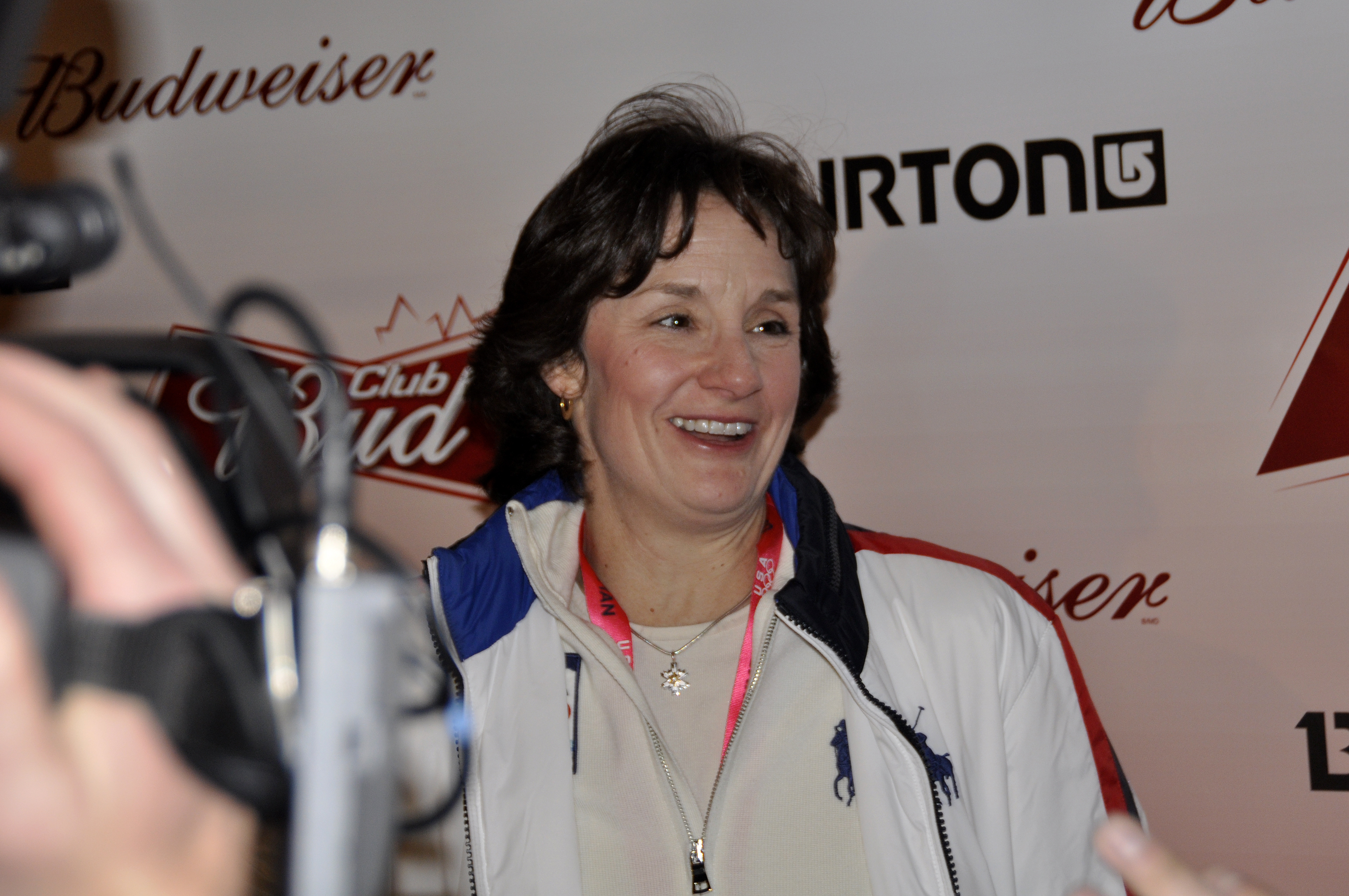 Bonnie Blair at the Club Bud private Burton party